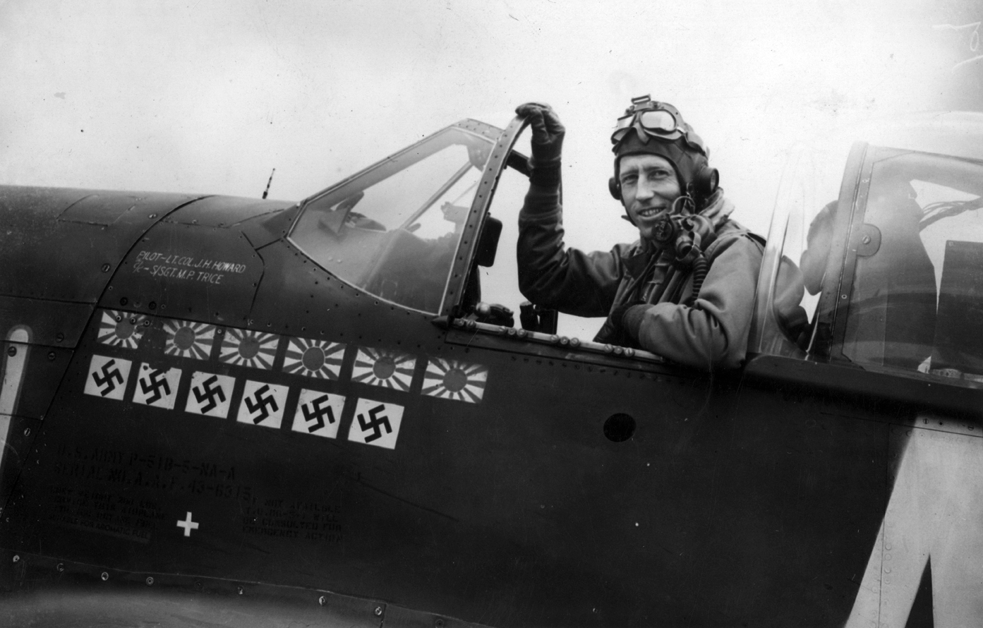 Lieutenant-Colonel James H Howard of the 354th Fighter Group in his P-51 Mustang April 1944.